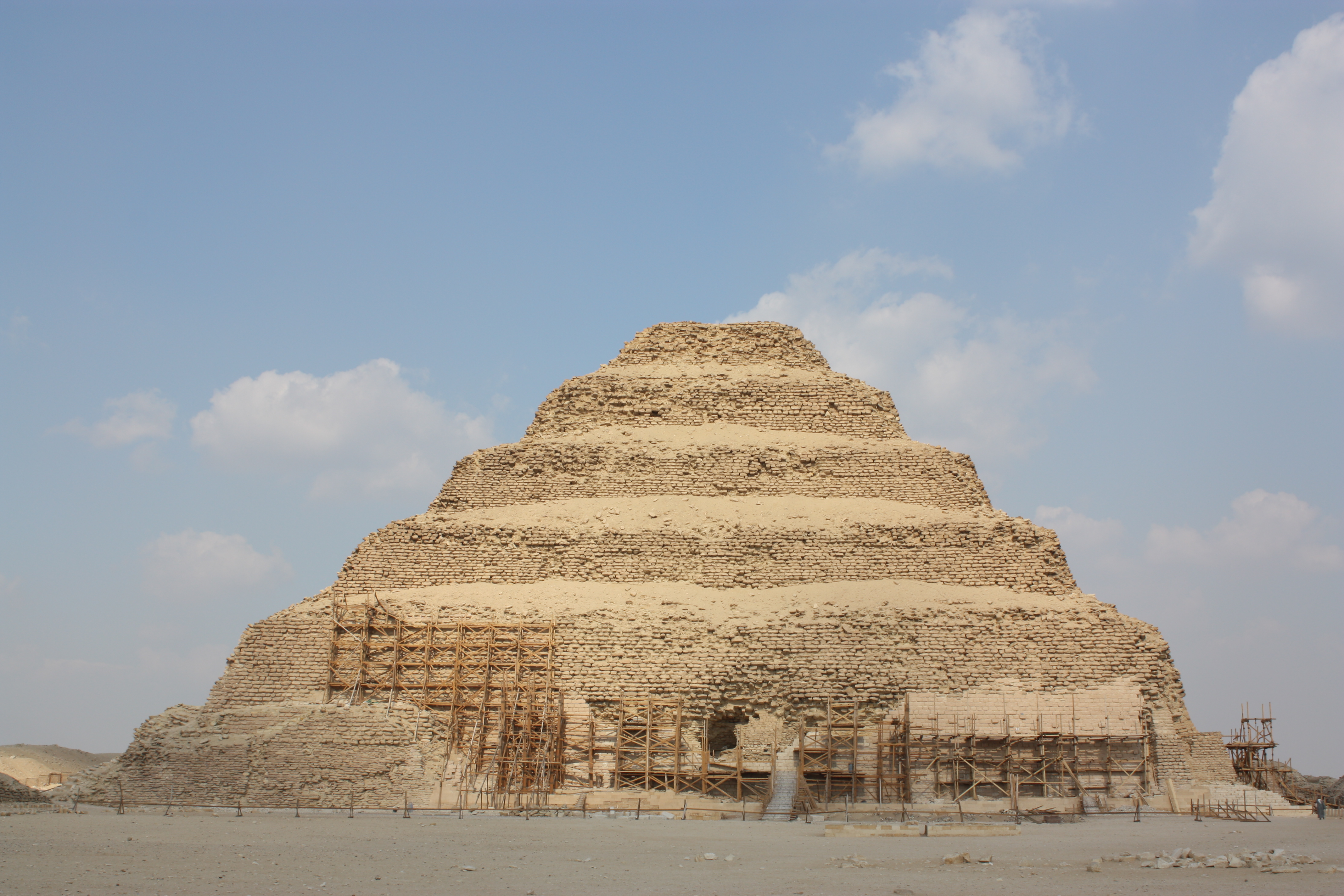 The Pyramid of Djoser in Saqqara, Egypt.